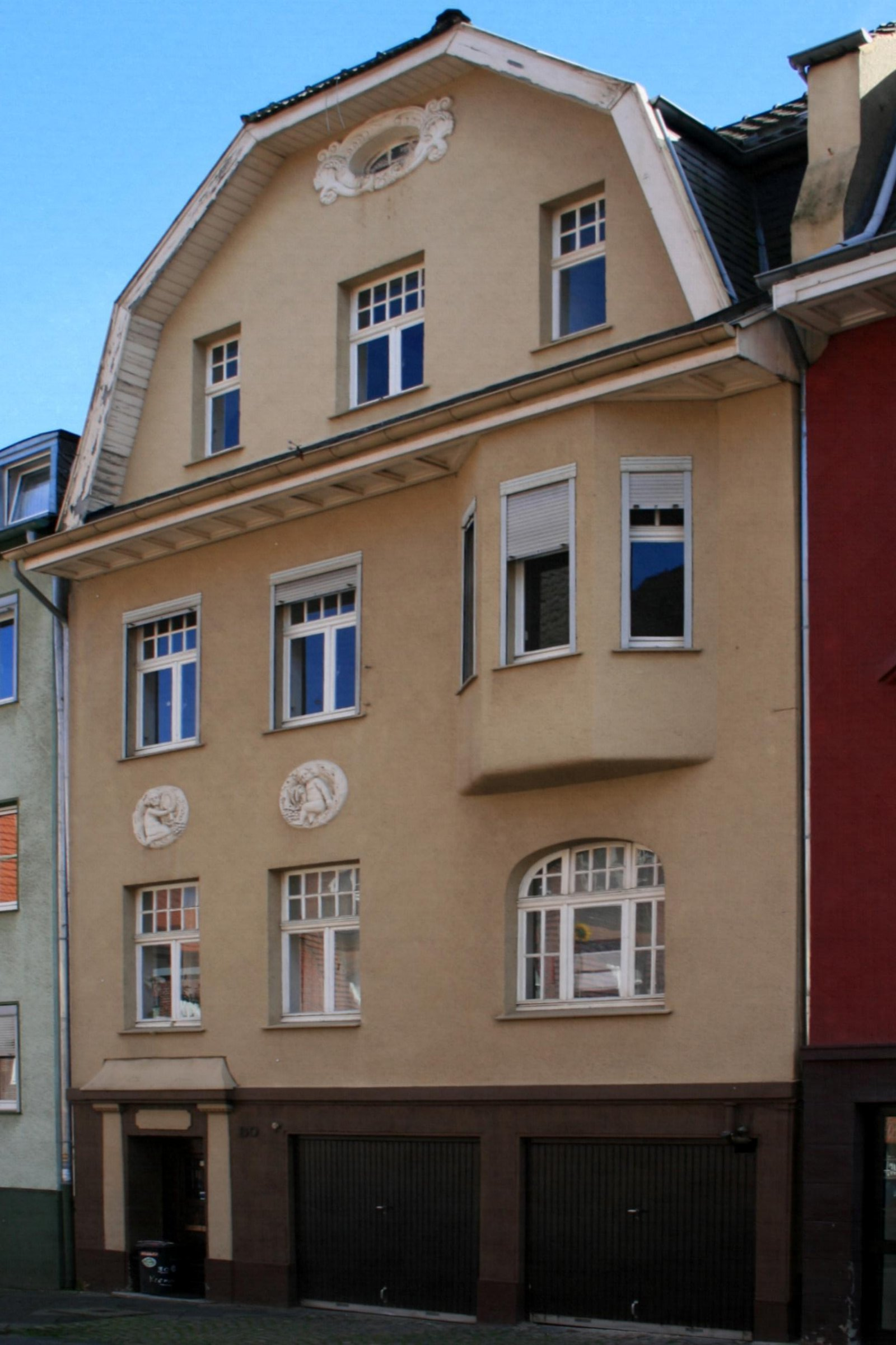 Cultural heritage monument No. W 029 in Mönchengladbach